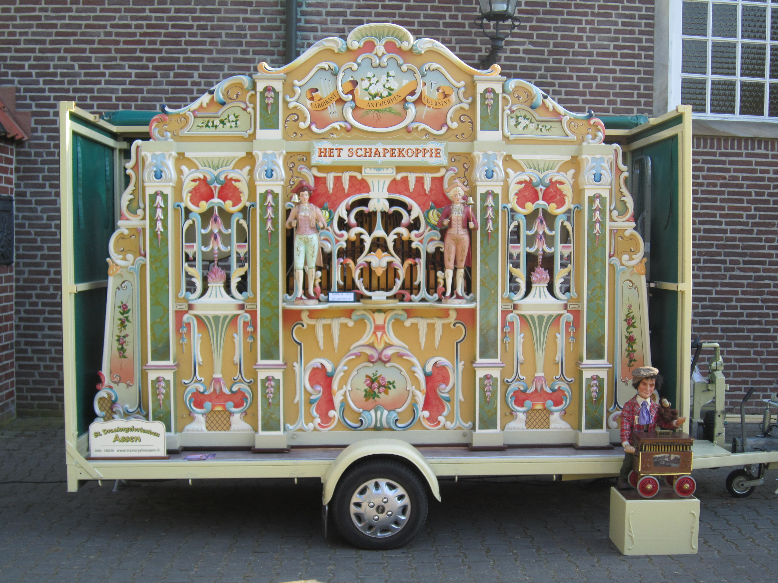 Street organ of the Assen "Draaiorgelmuseum", displayed at the historical "Korn- und Hansemarkt" Haselünne